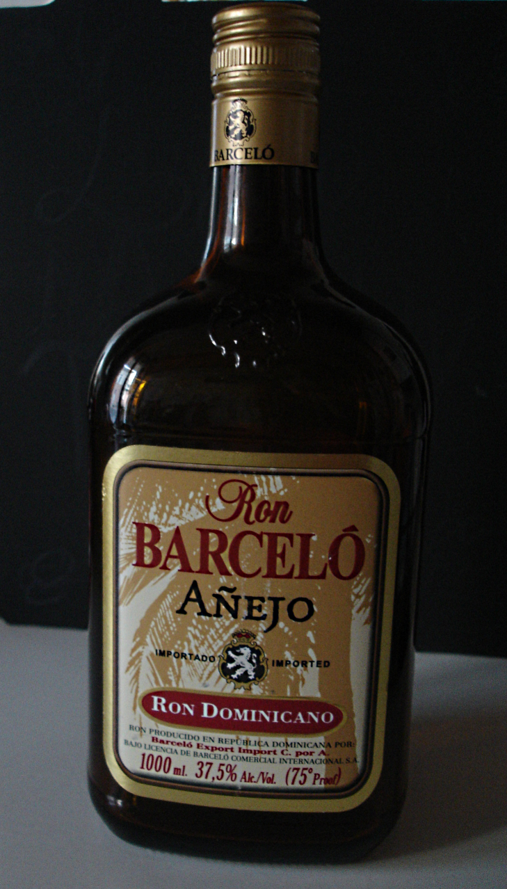 Front shot of a 1000 ml. bottle of imported Dominican rum (ron). A bottle of "Añejo" (lit. "aged") from the Barceló brand of Dominican Republic.